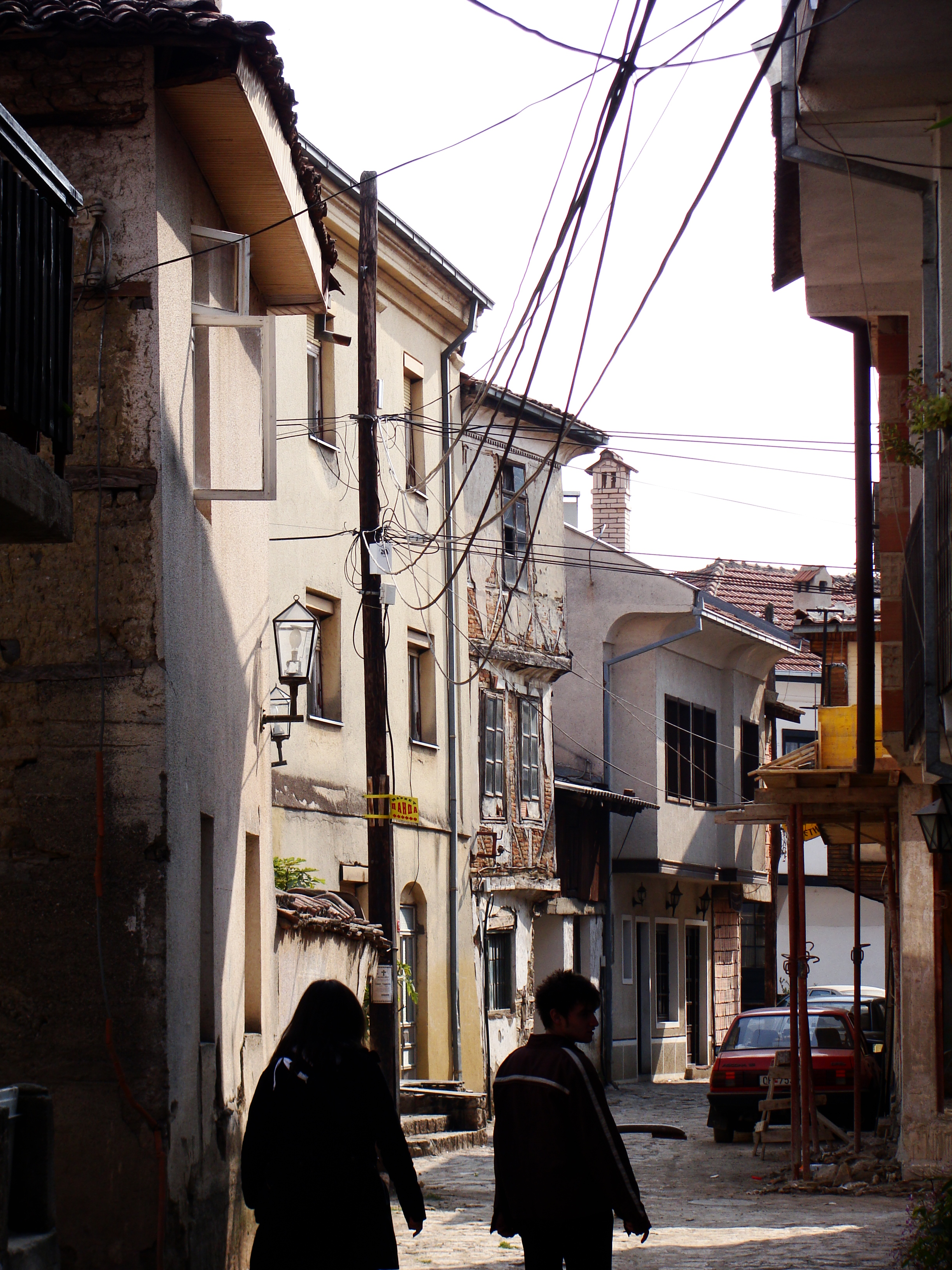 Struga, a town by the Ohrid lake.